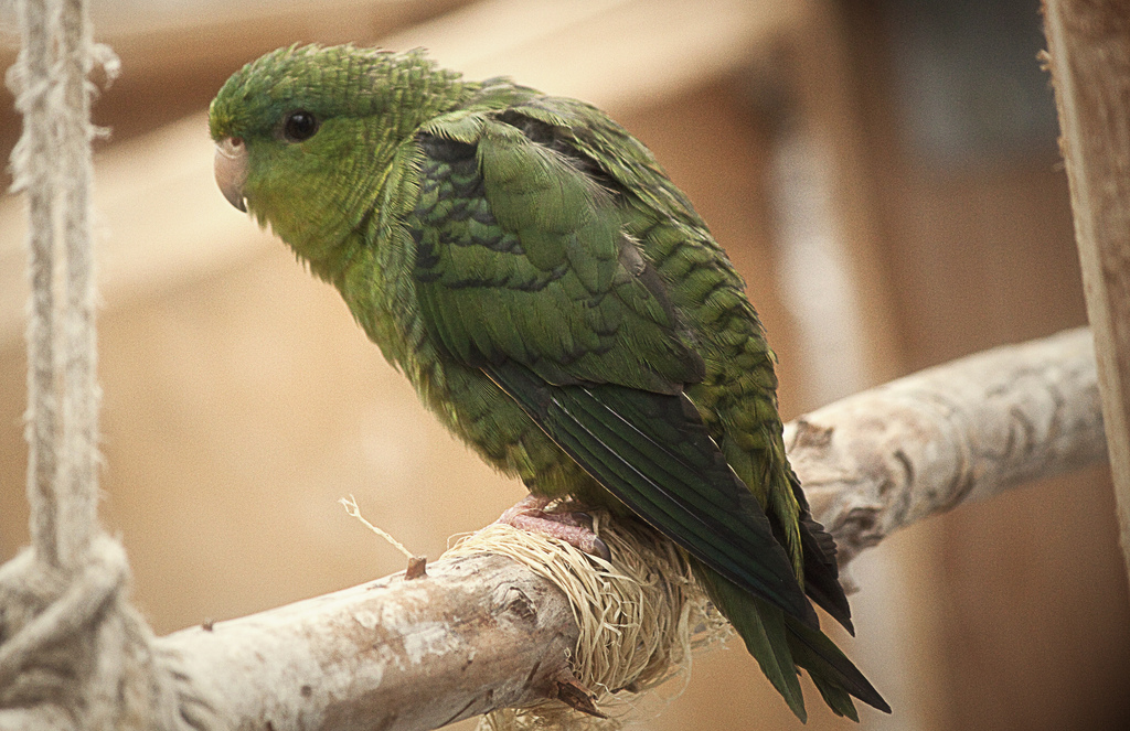 A Barred Parakeet (also known as Lineolated Parakeet) in captivity.